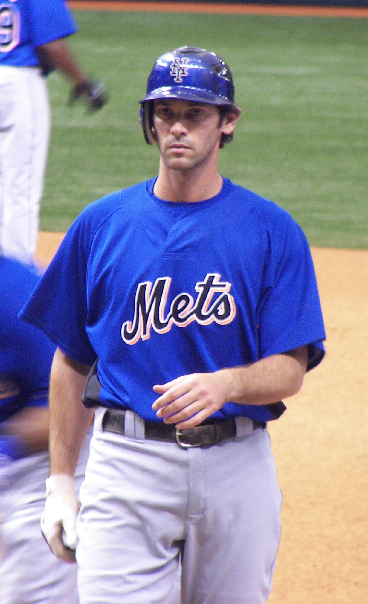 New York Mets outfielder Shawn Green during a Mets/Devil Rays spring training game at Tropicana Field in St. Petersburg, Florida.